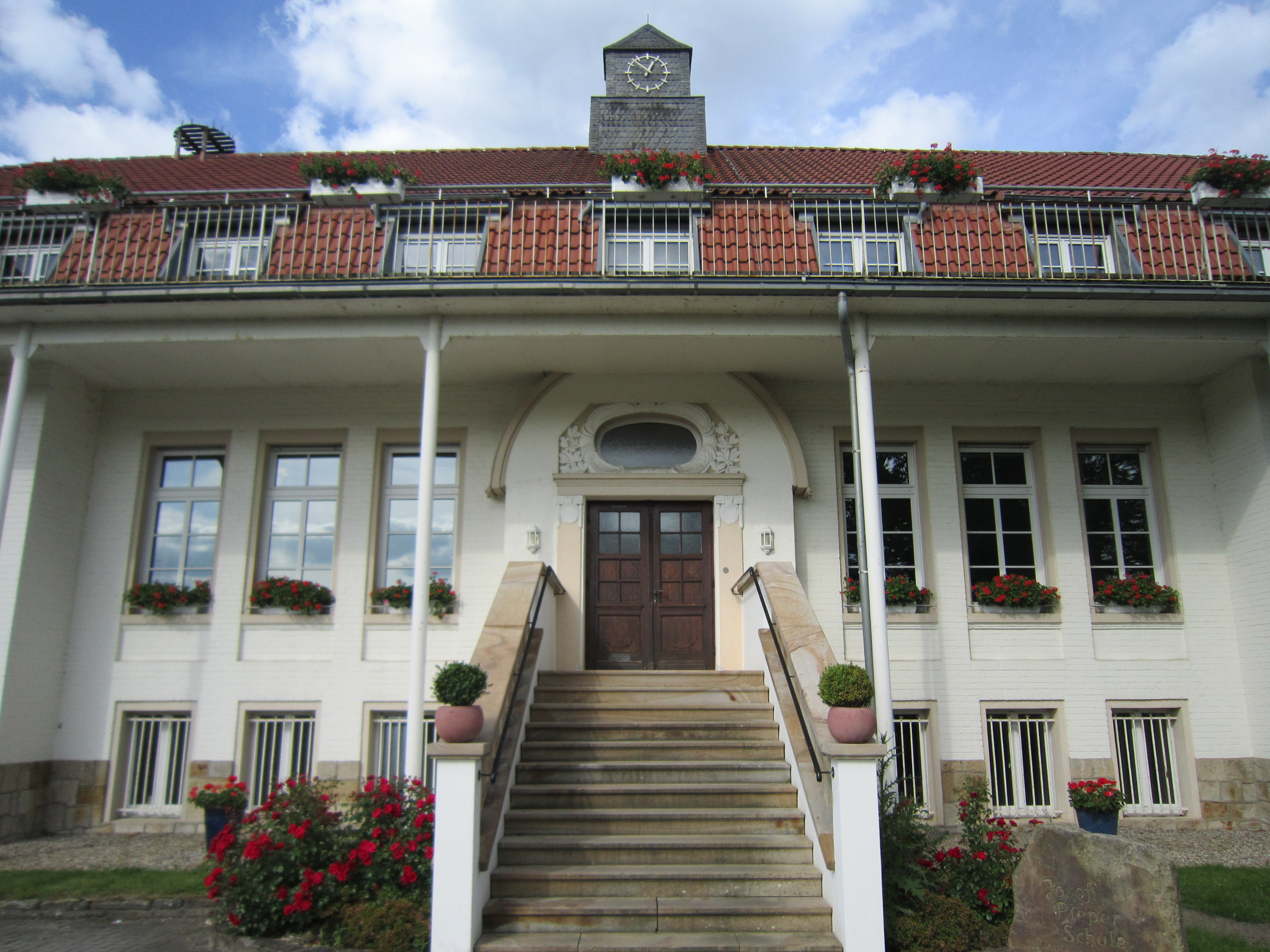 Episcopal "Josef-Pieper-Schule" in Rheine (Westphalia)